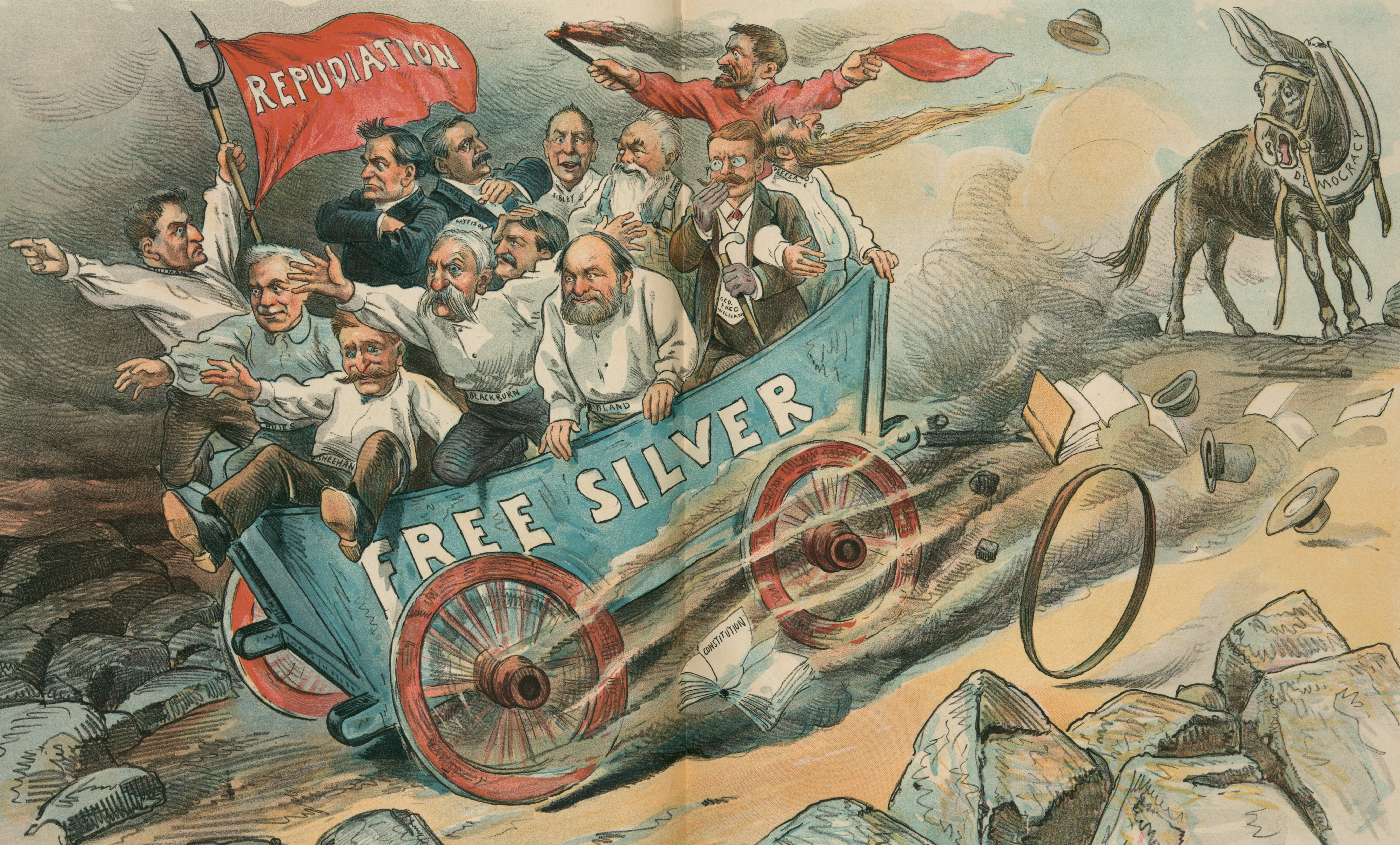 Title: A down-hill movement / C.J. Taylor. Abstract/medium: 1 print : chromolithograph.